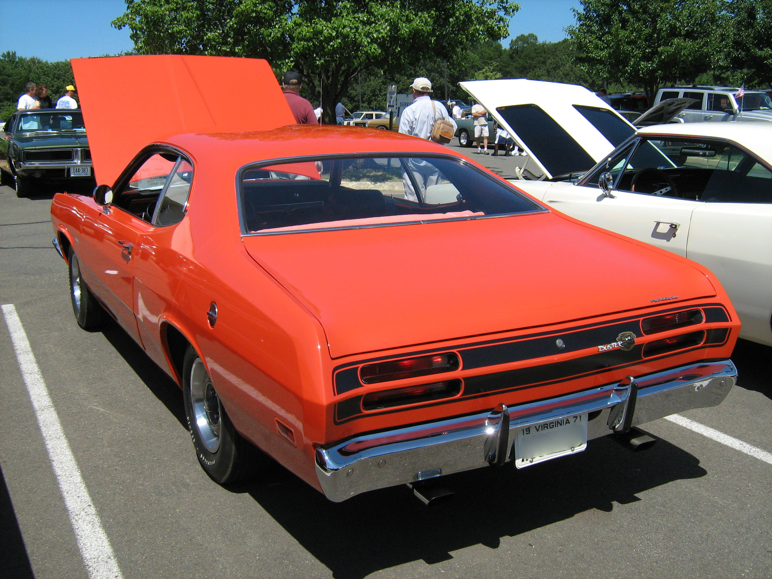 1971 Plymouth Duster coupe. Rear view.